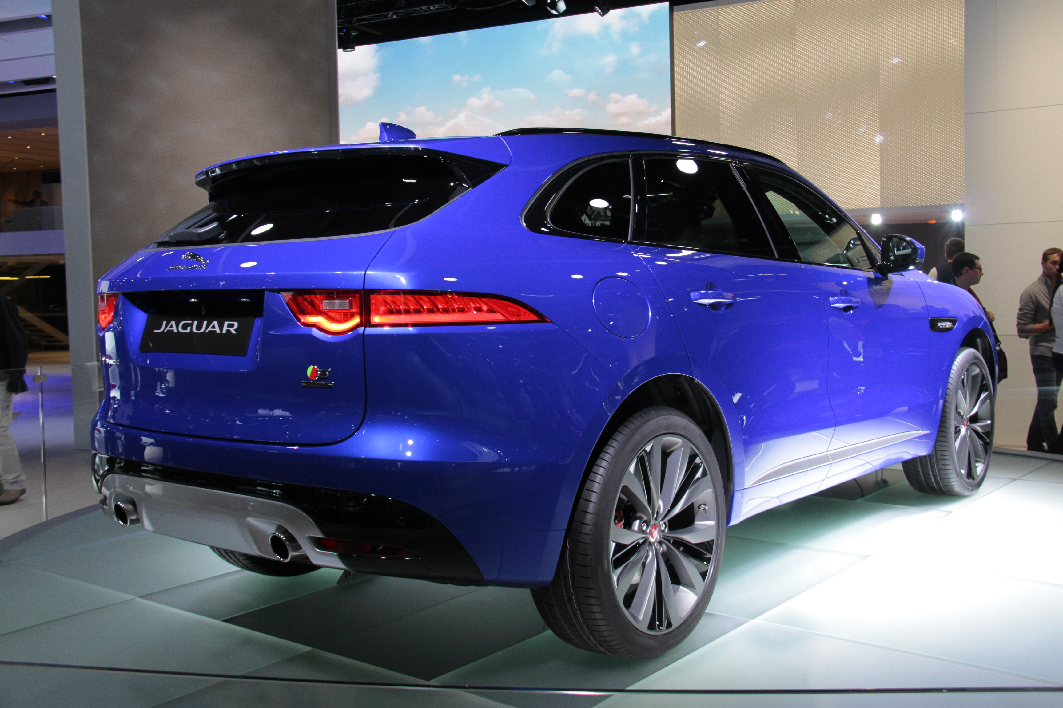 Rear 3/4 view of the Jaguar F-Pace, at the 2015 IAA